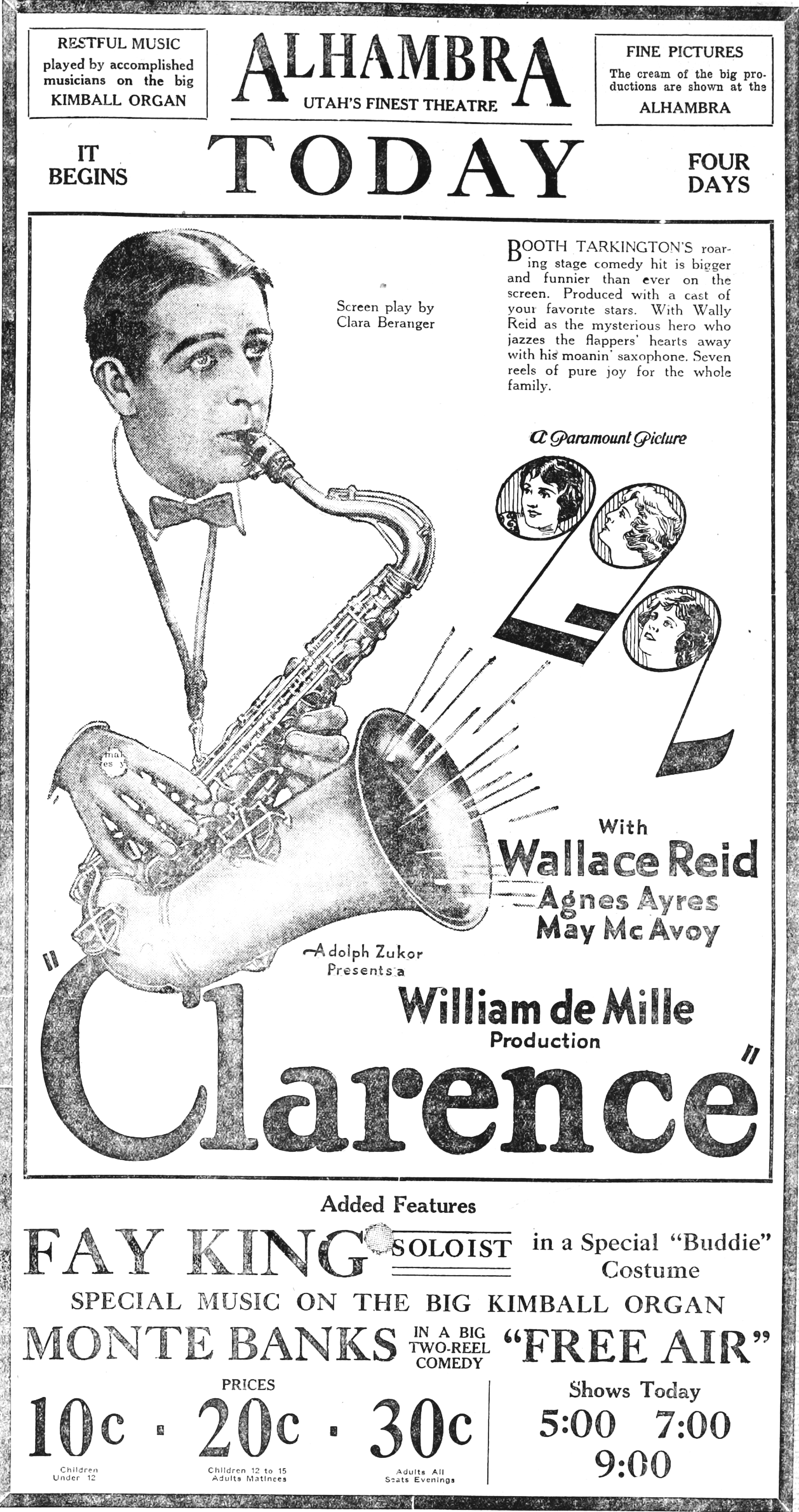 Clarence (1922) is a silent comedy drama, based on a play by Booth Tarkington, produced by Famous Players-Lasky and distributed through Paramount Pictures. This is a newspaper advertisement for the film from the The Ogden Standard-Examiner.